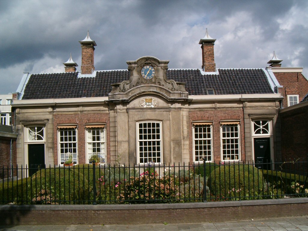 Picture taken by Guus Bosman on September 14th, 2004. I took the picture myself.